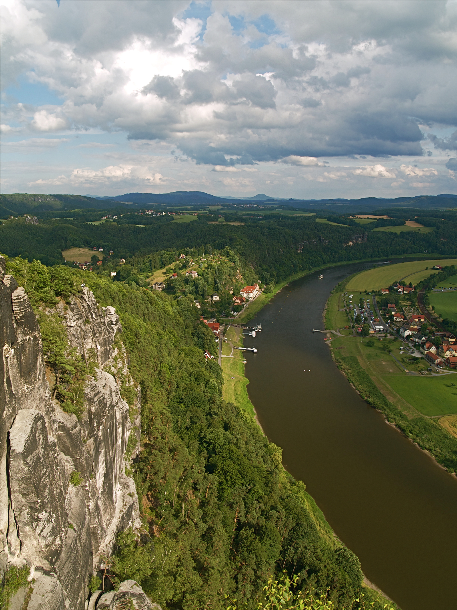 View from Bastei onto Rathen, the river Elbe and the Saxon Switzerland